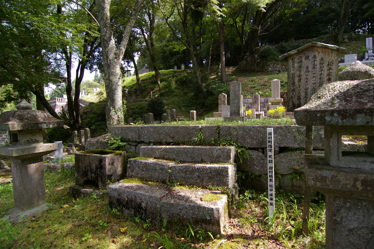 Daimyo Cemetery (Iwamura, Ena City, Gifu Pref., Japan)